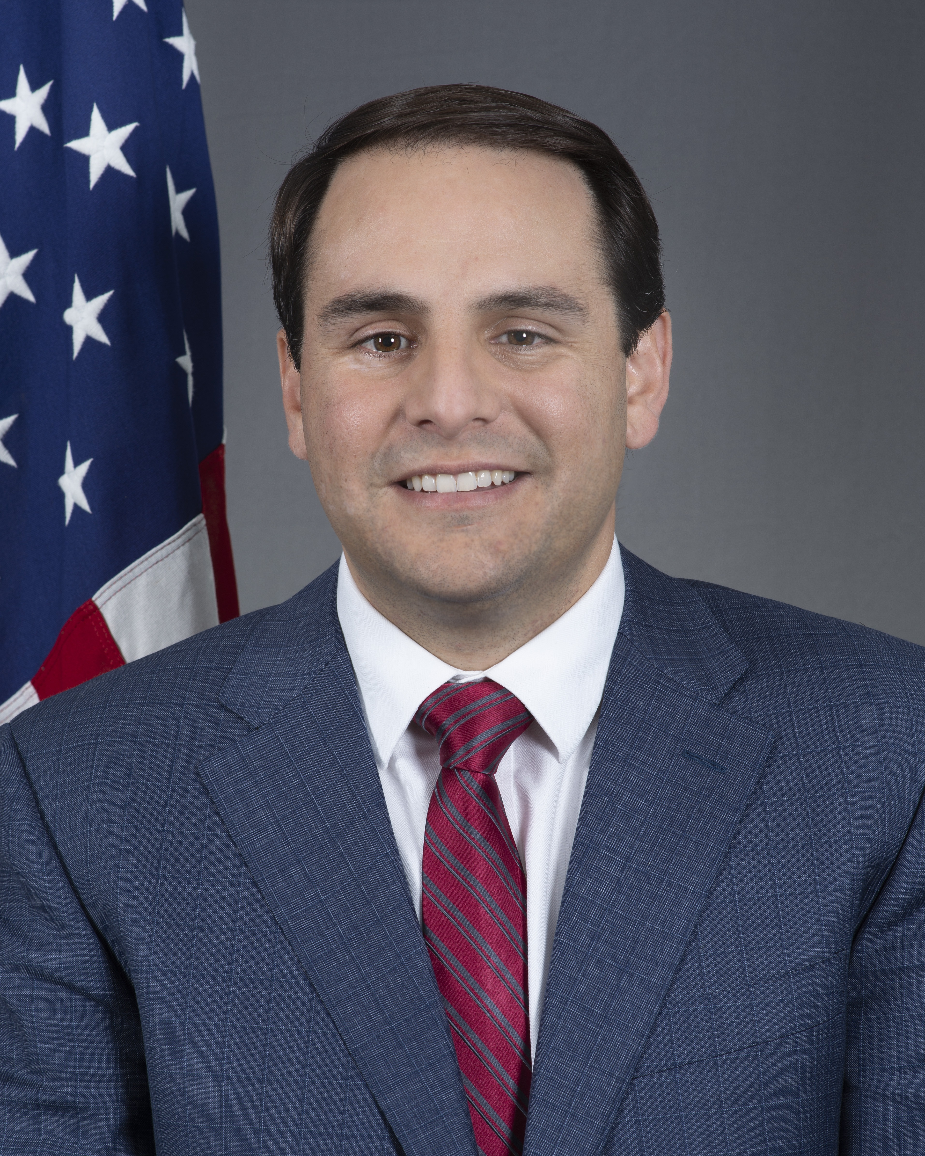 Carlos Trujillo official photo